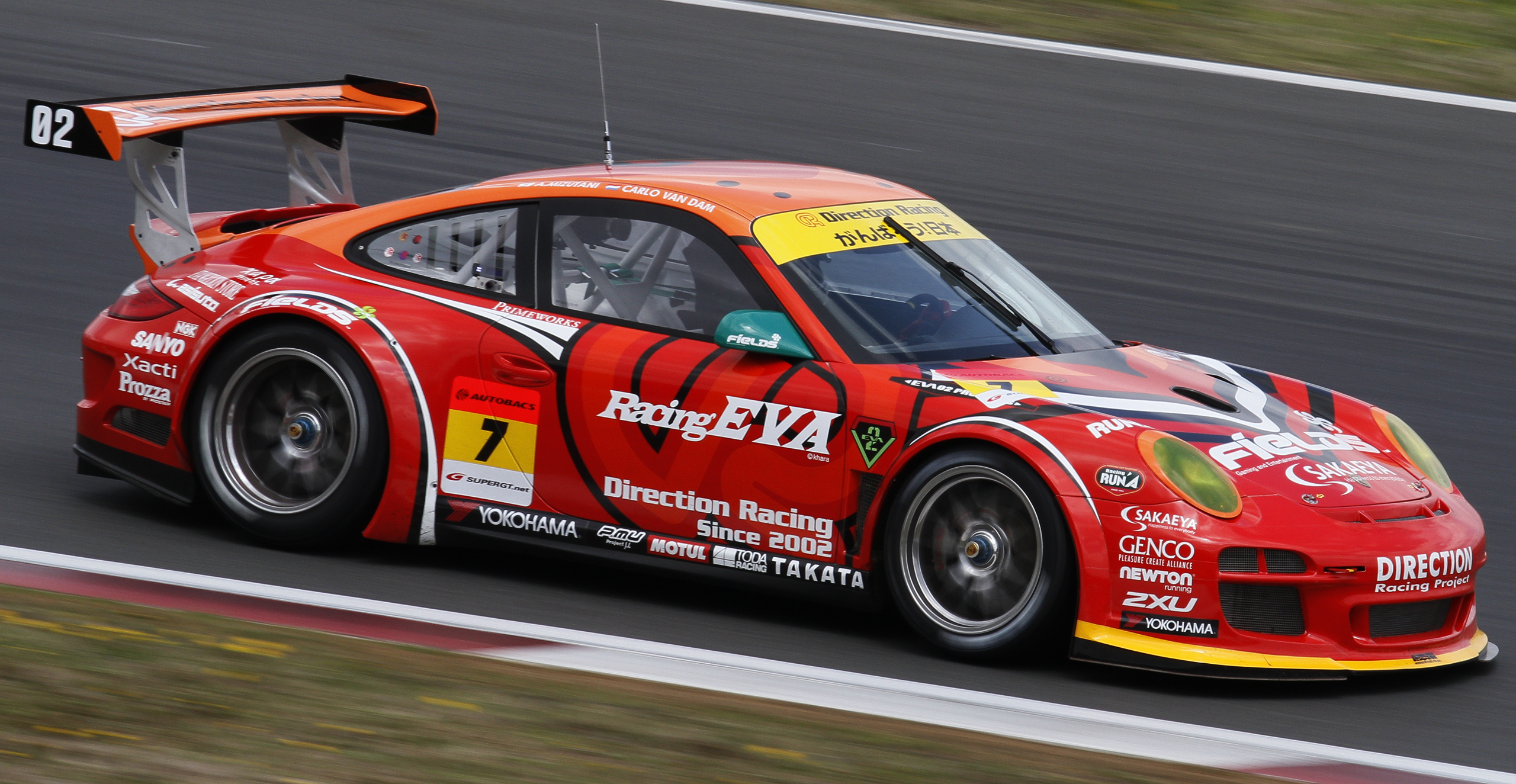 Super GT 2011 Rd.2 Fuji GT 400km: Carlo van Dam (Direction Racing) driving the Porsche 997 GT3 R MY2011 (Evangelion RT Production Model-02 Direction) during Friday test session.